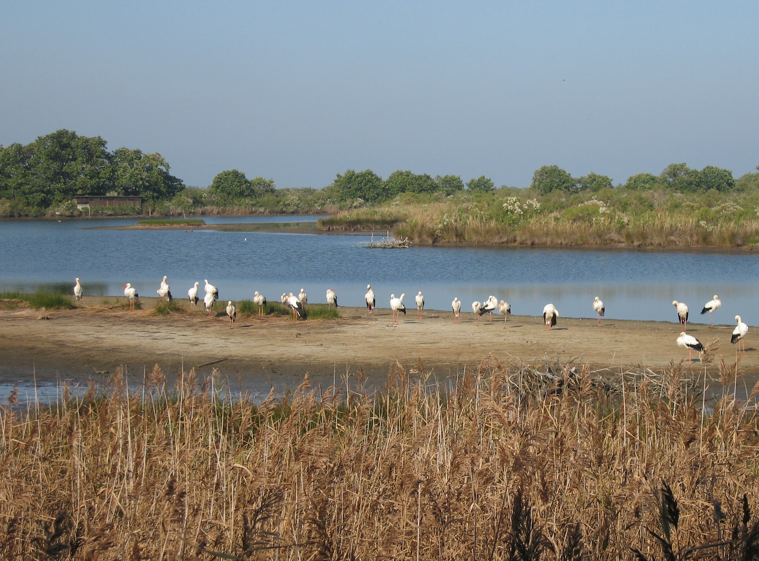 Cigognes blanches (White Ciconia); Parc Ornithologique du Teich ; Location=Le Teich, Bassin d'Arcachon, France